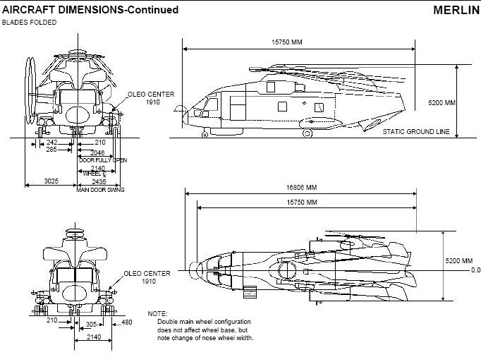 EH101 Merlin Dimensions with blades folded